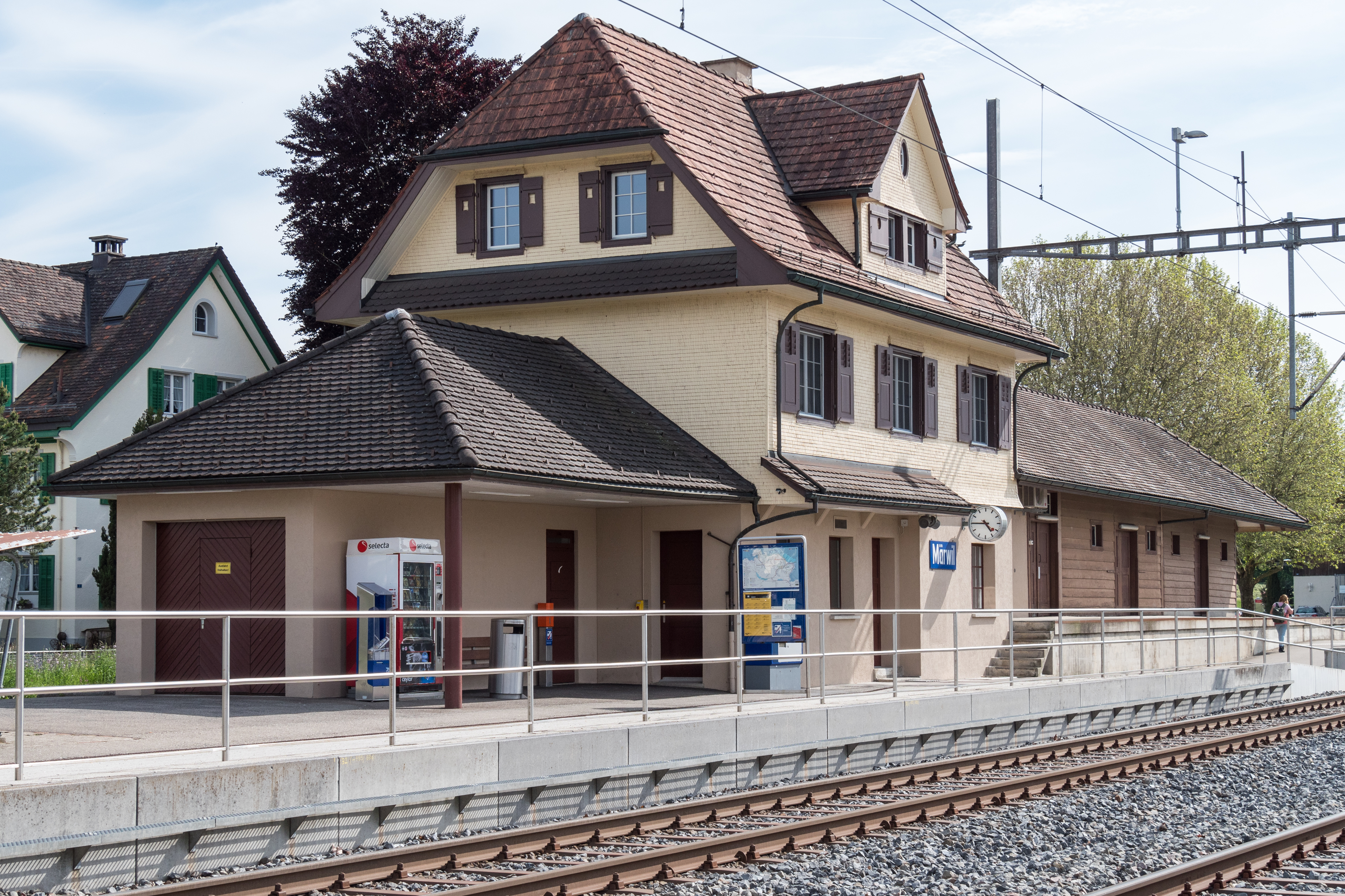 Märwil railway station at the Weinfelden - Wil SG line